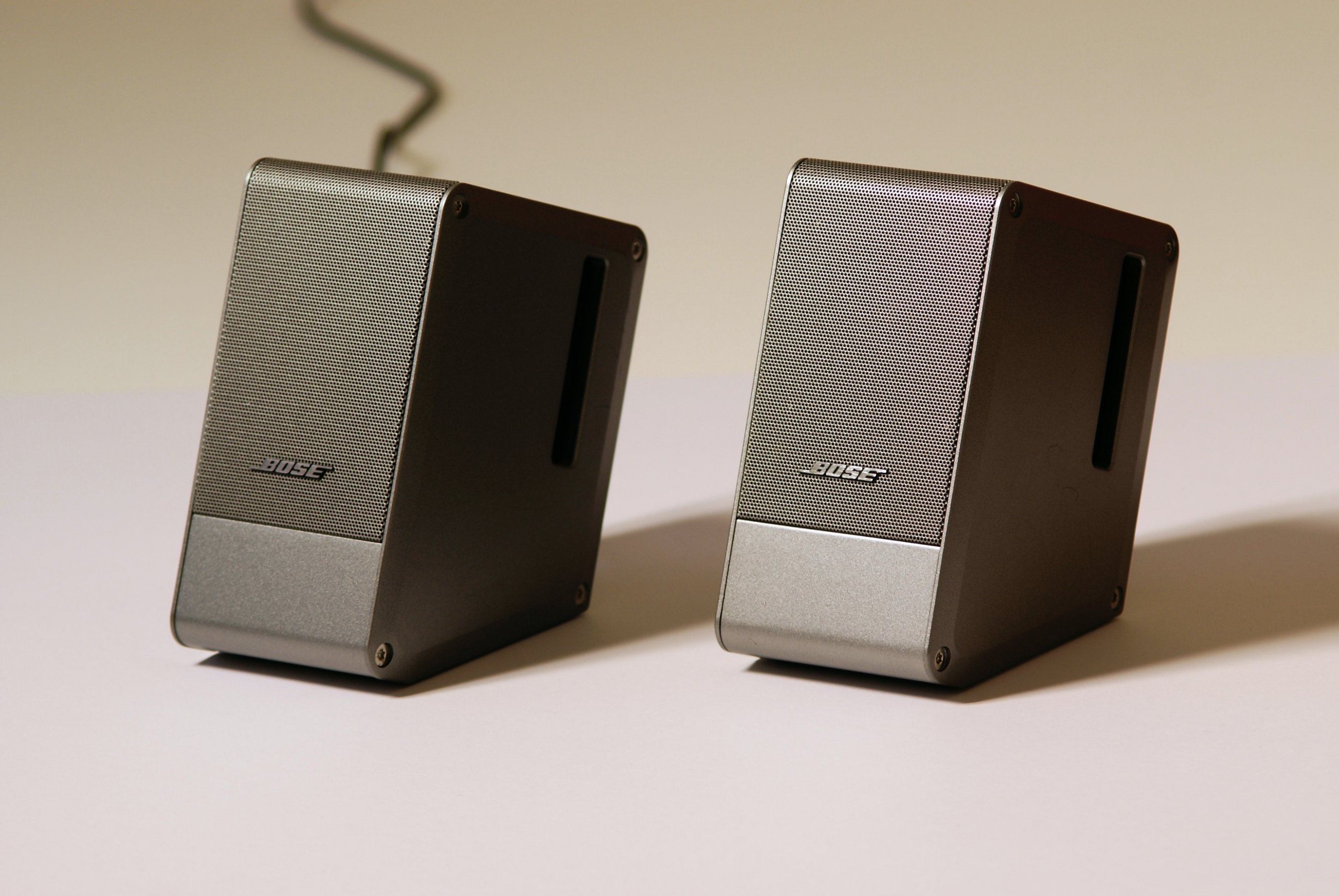 Picture of the Bose Computer MusicMonitor speaker system